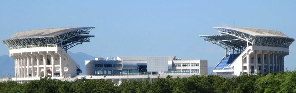 The Estádio Nacional de Ombaka just outside Benguela, Angola, was built for the 2010 Africa Cup of Nations at a cost of US$116 million and has seldom been used since.